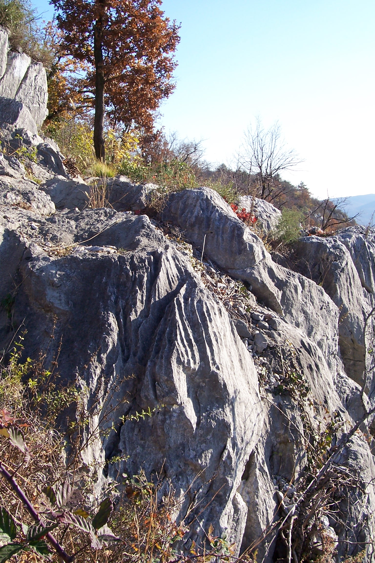 Karst landscape. Surface dissolution images (vertical grooves on the rocks) are clearly visible. Doberdò del Lago (Italian Karst)